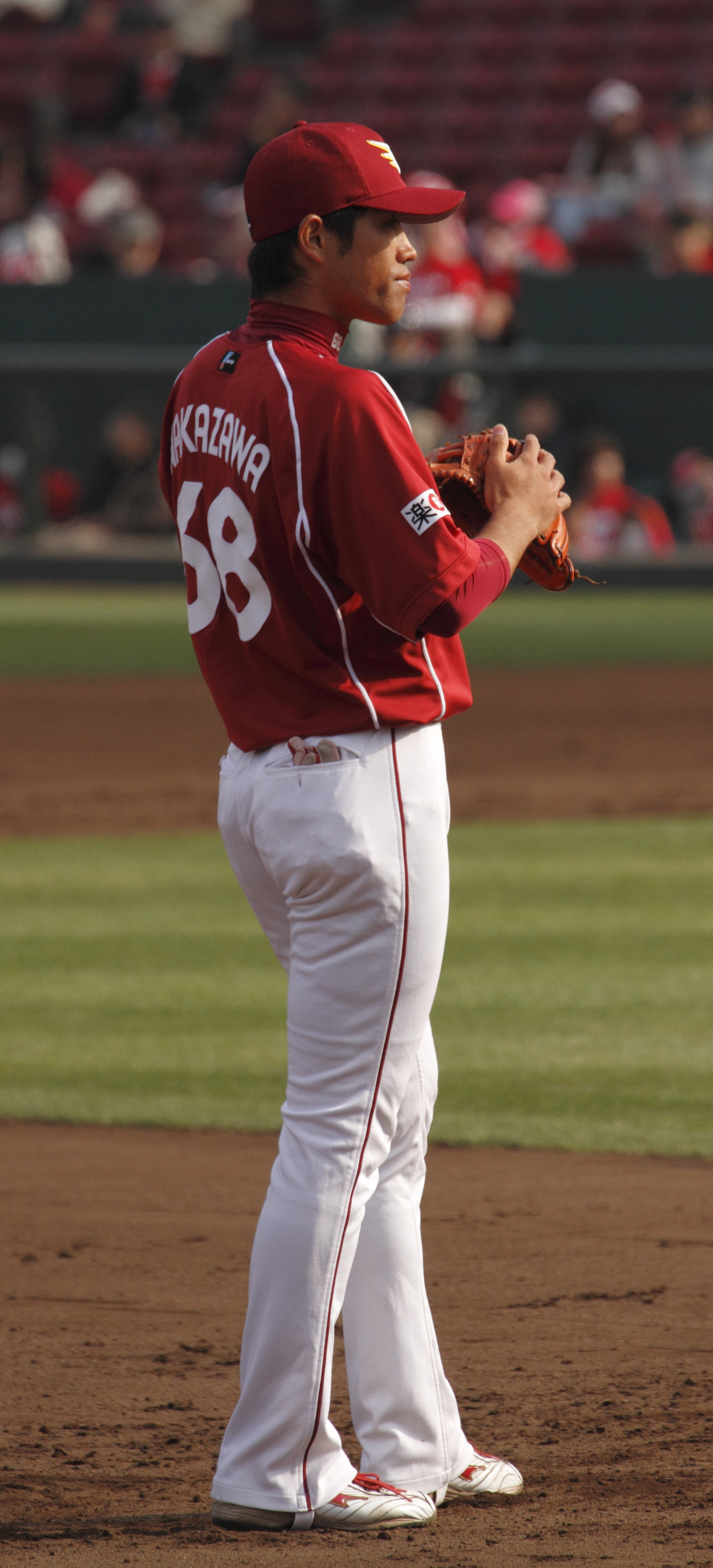 Hiroki Nakazawa, infielder of the Tohoku Rakuten Golden Eagles, at MAZDA Zoom-Zoom Stadium Hiroshima.